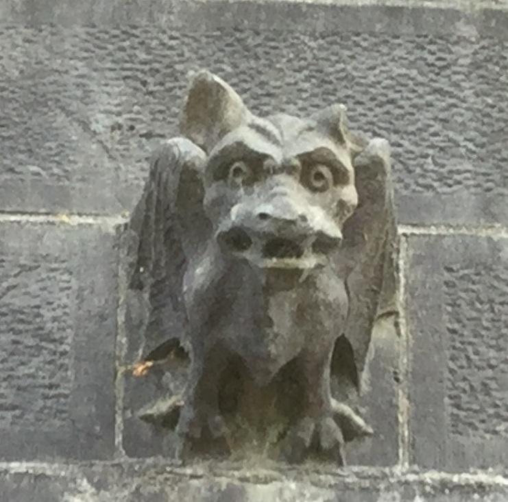 Gargoyle on the exterior of Saint Fin Barre's Cathedral, Cork.